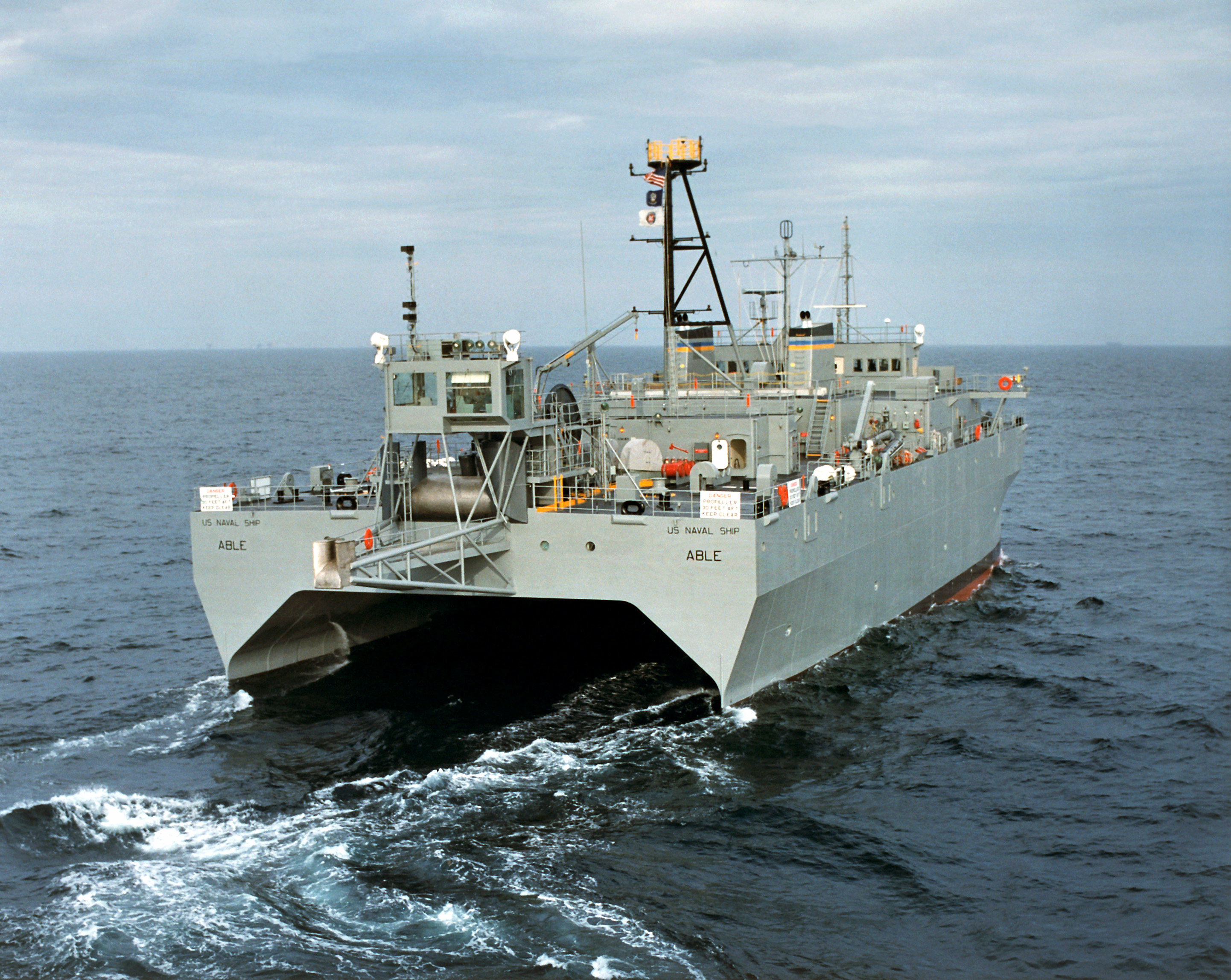 A starboard quarter view of the ocean surveillance ship USNS ABLE (T-AGOS-20) of the Military Sealift Command during acceptance sea trials.